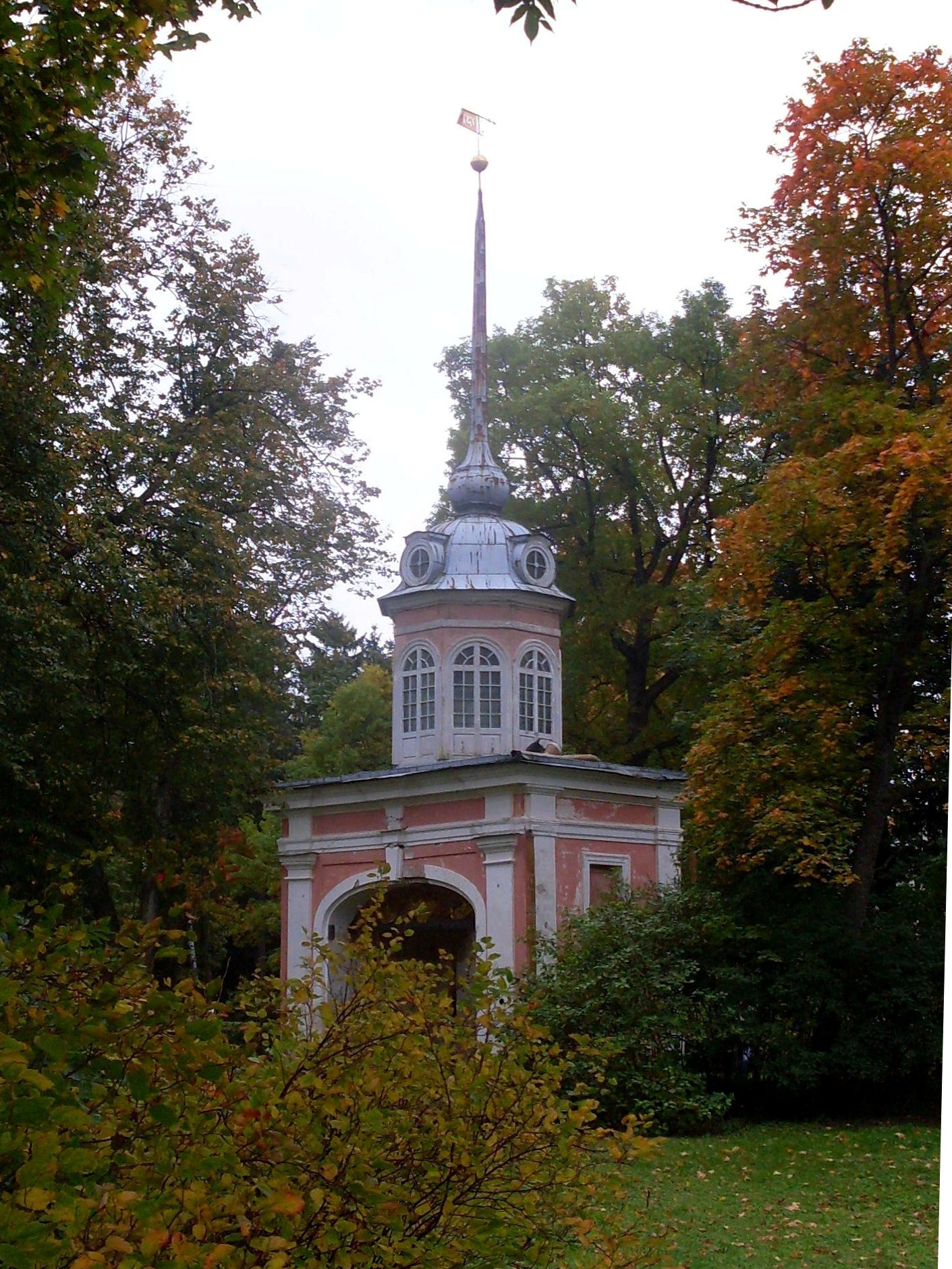 Photo of the Gates of the Petershtadt Fortress in Oranienbaum. Taken in September 2009.